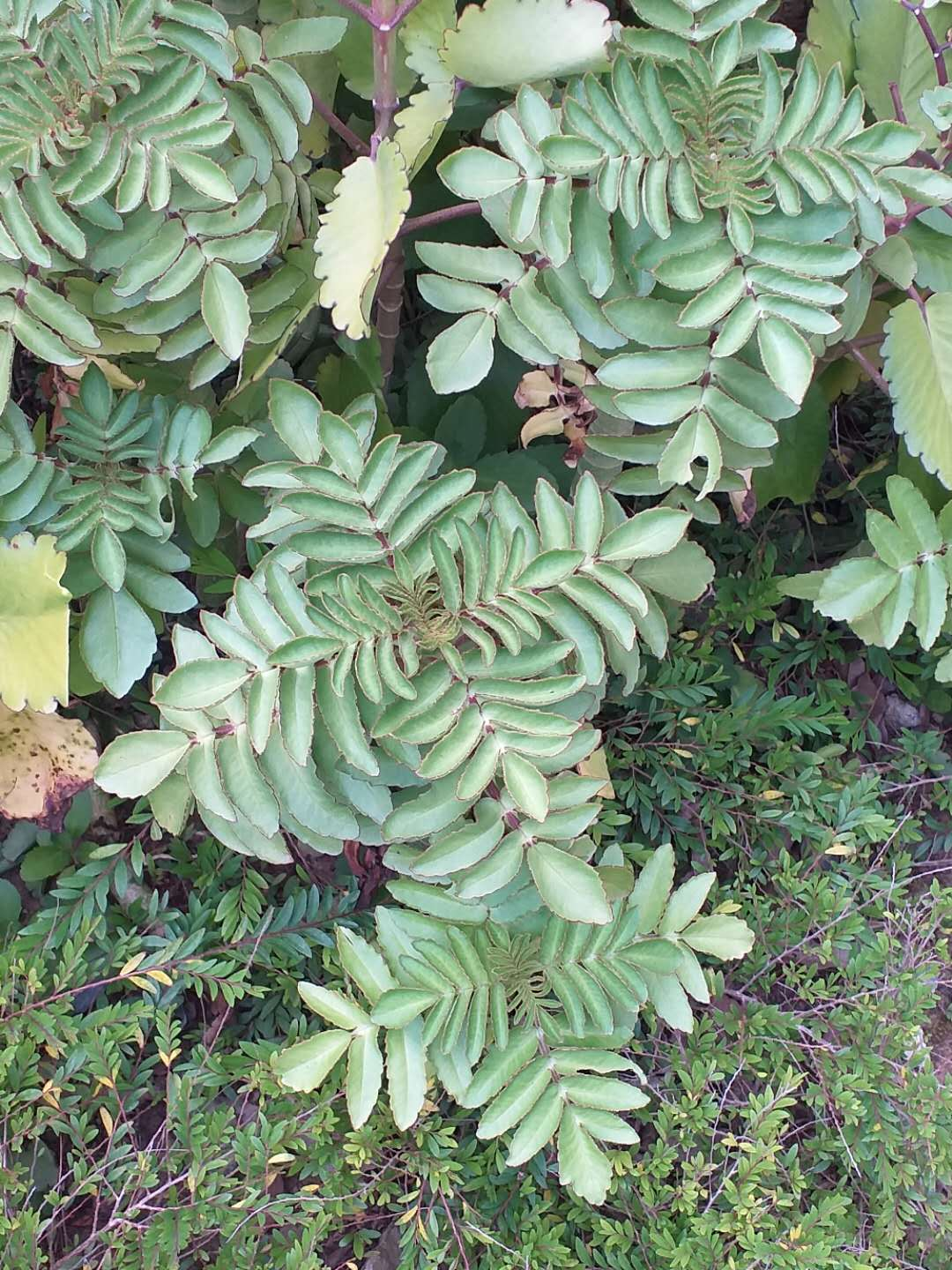 Young plant of Bryophyllum pinnatum. 2018 Taichung World Flora Exposition, Taiwan.